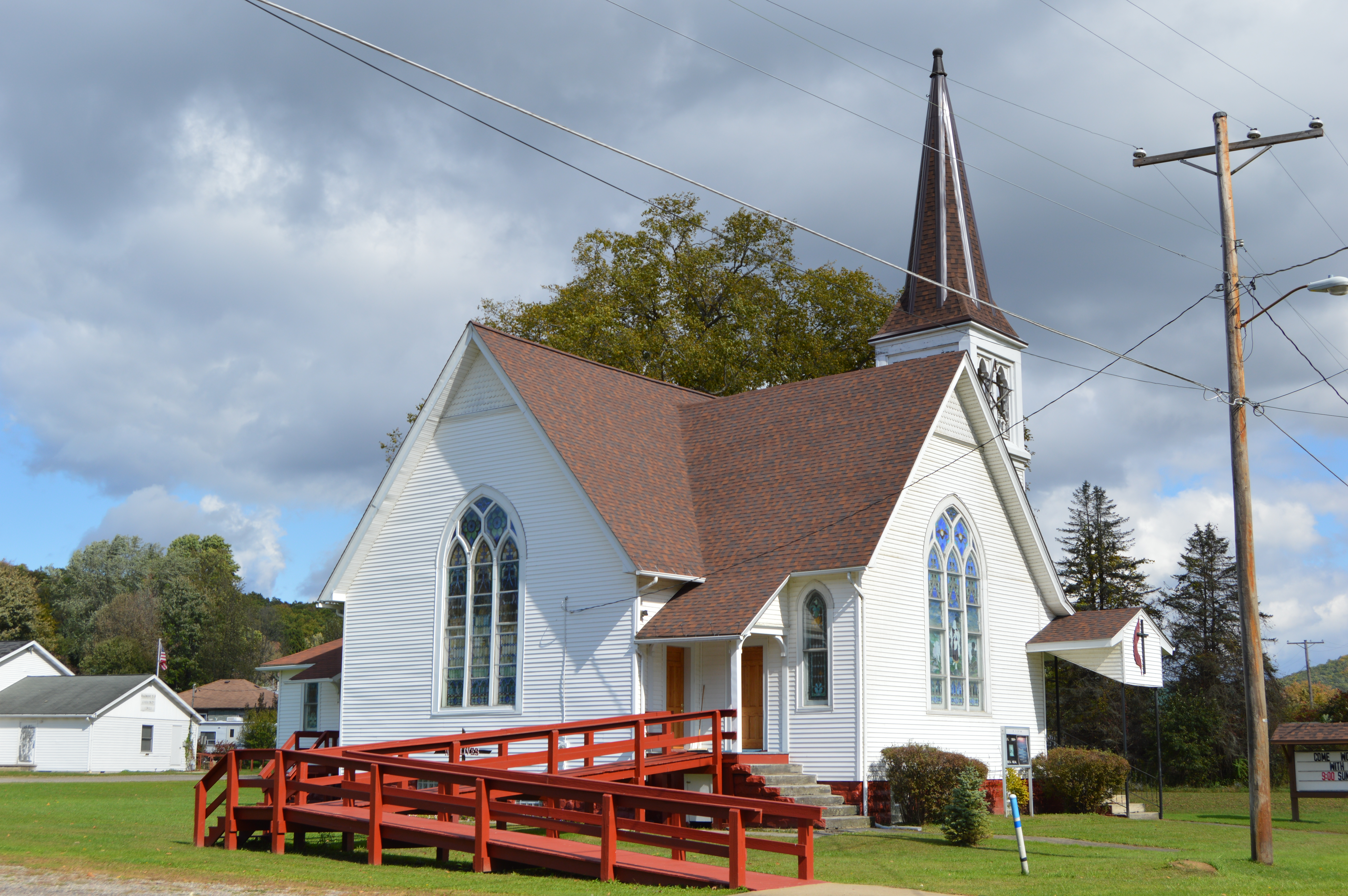 Front and southern side of the West Hickory United Methodist Church, located at 210 Main Street in West Hickory, Pennsylvania, United States.